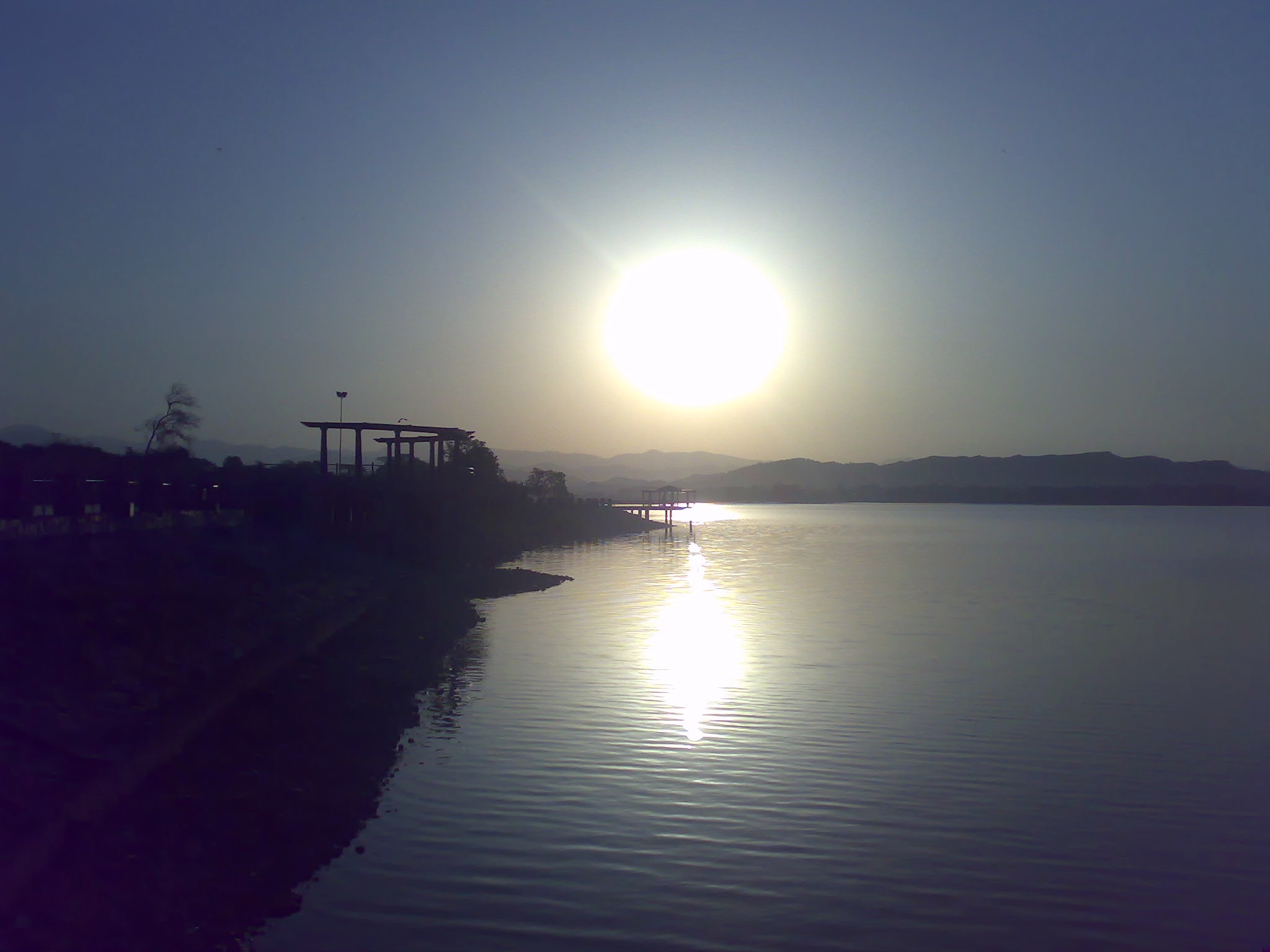 View of sunrise from Rawal Lake view park, Islamabad